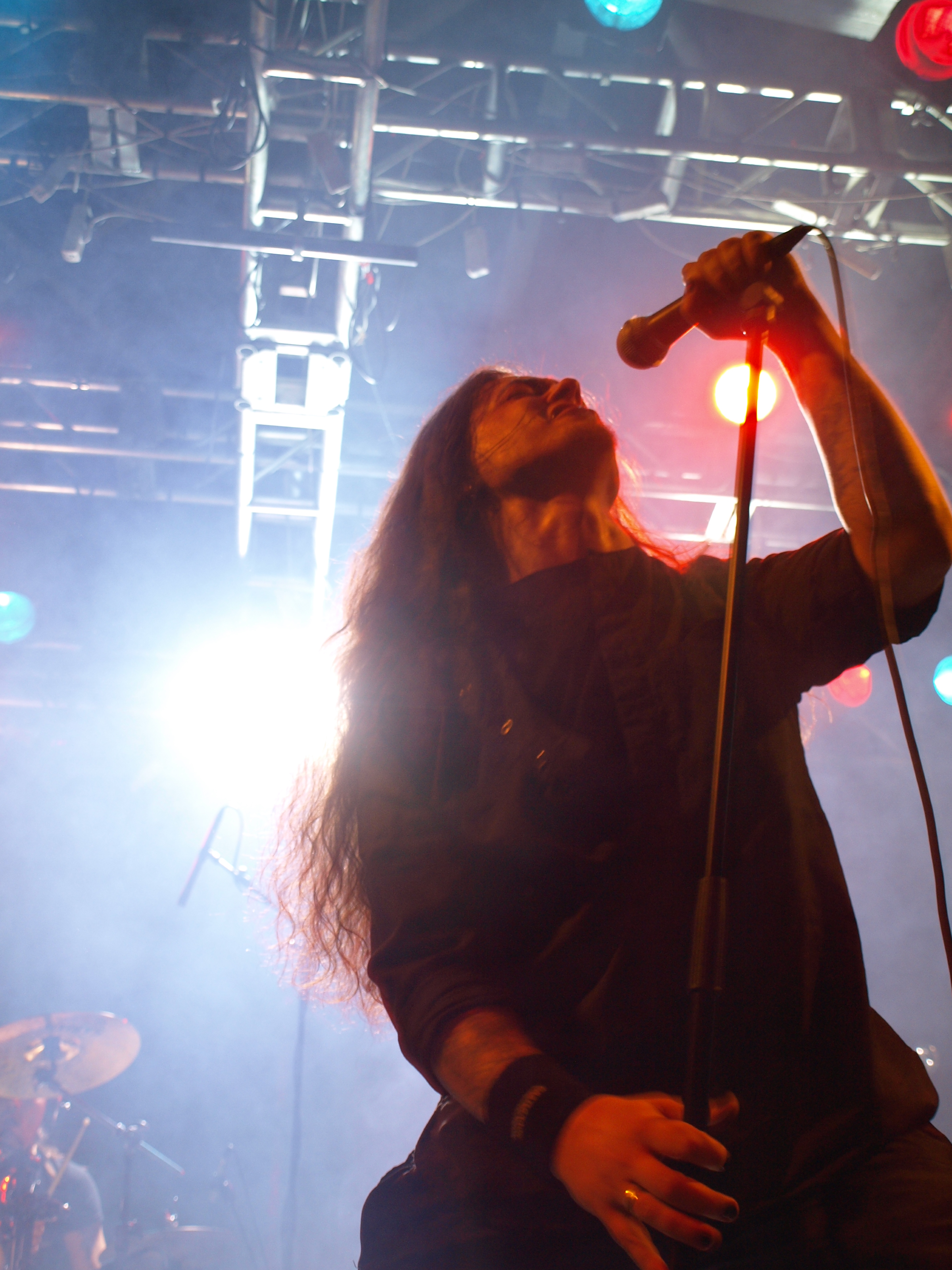 Russian dark metal band Dominia live at Nosturi, Helsinki